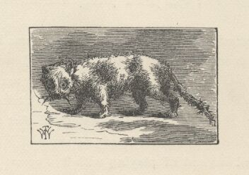 Illustrations de The Adventures of Tom Sawyer, 1876.